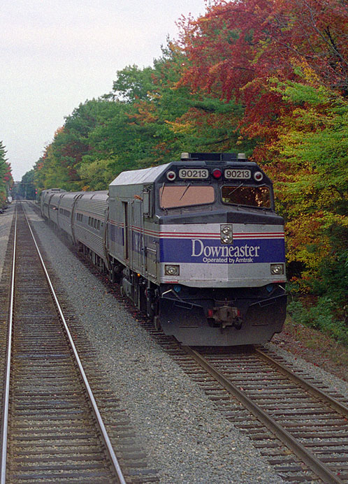 A southbound Amtrak Downeaster train passes through the village of Ocean Park, Maine, headed for Boston.